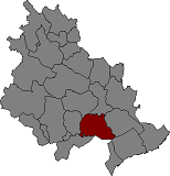 Location of Maçanet de la Selva in Selva